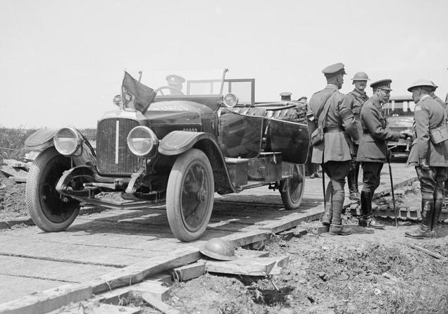 The Royal Visits To the Western Front, 1914-1918 King George V alongside his First Army open car near Vimy Ridge, 11 Juuly, 1917. On the right is General Henry Sinclair Horne.